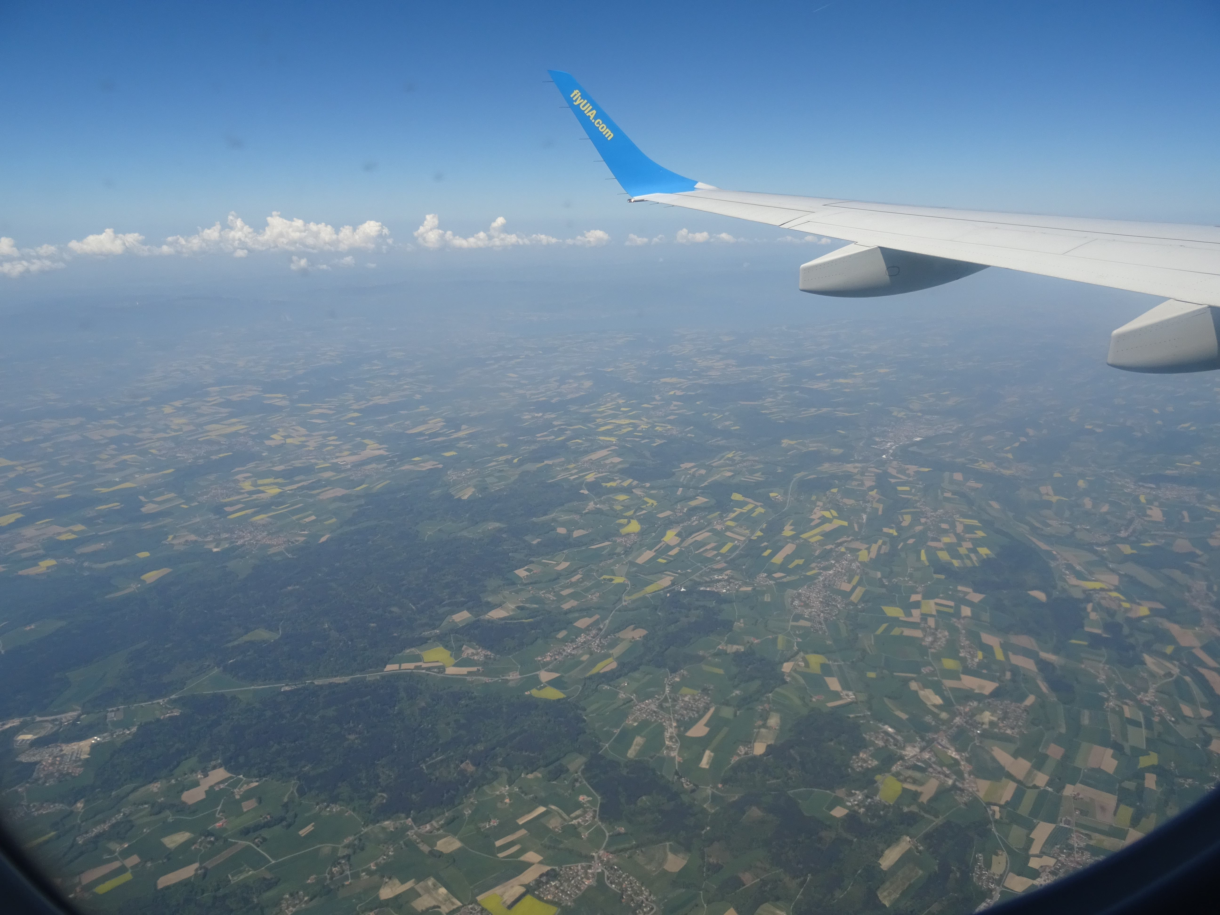 Vue du Jorat depuis un avion allant de Genève à Kiev.